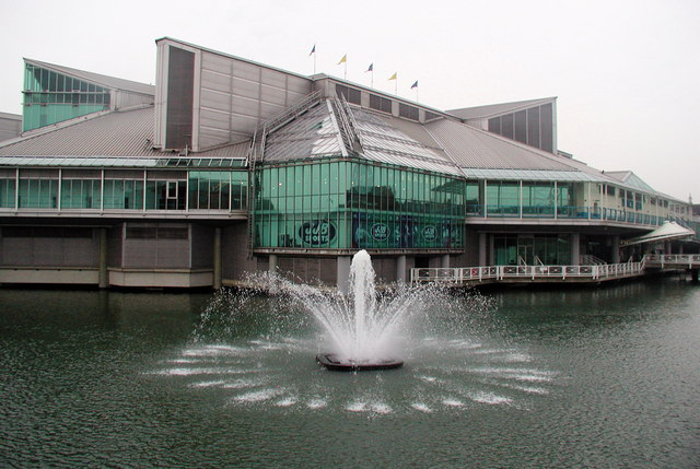 Princes Quay Shopping Centre, Hull